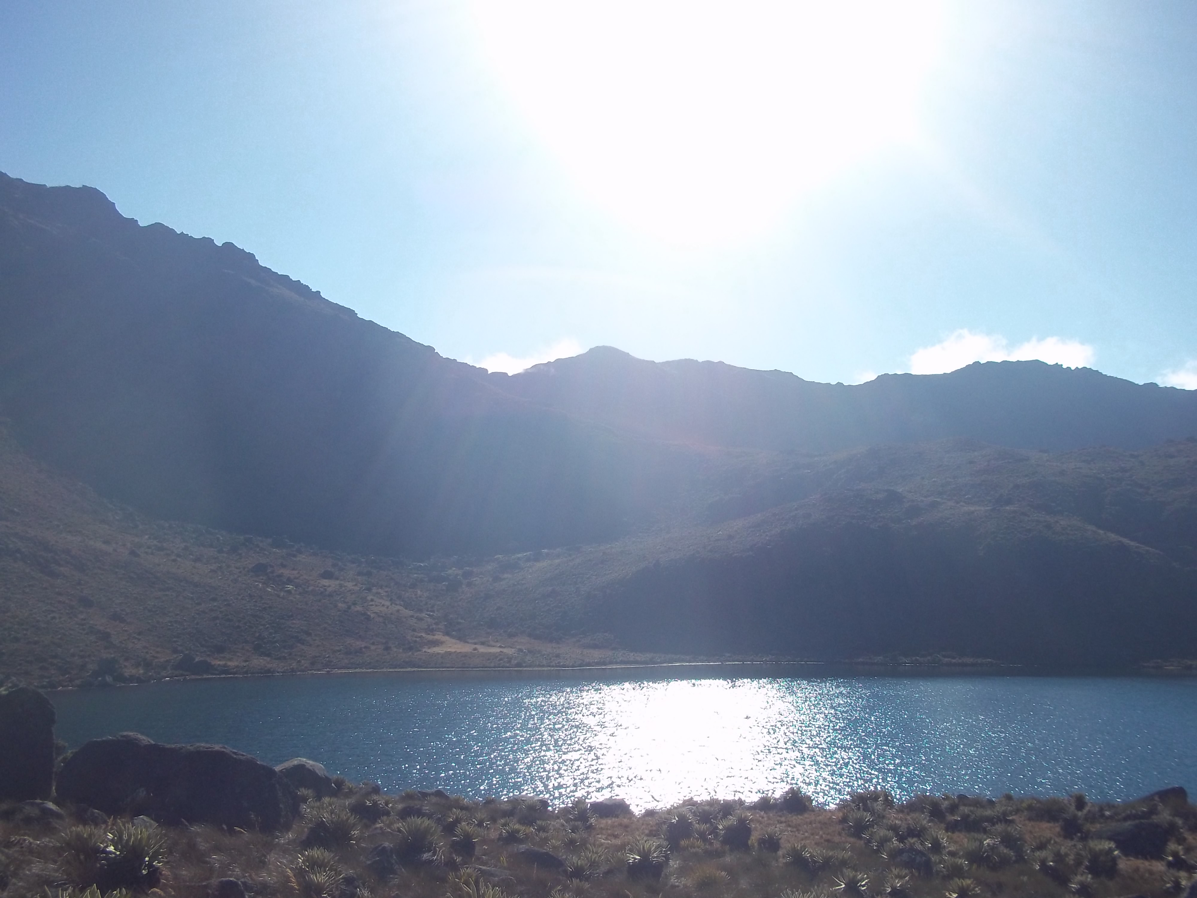 Taking the Laguna Grande at noon